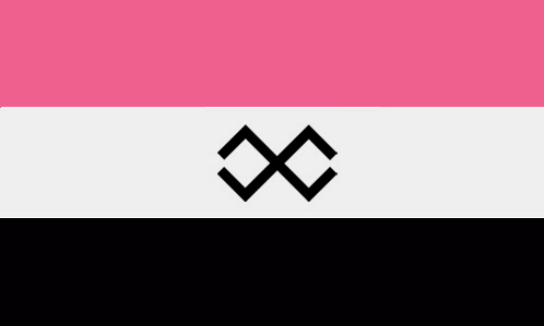 Flag of Moksha people